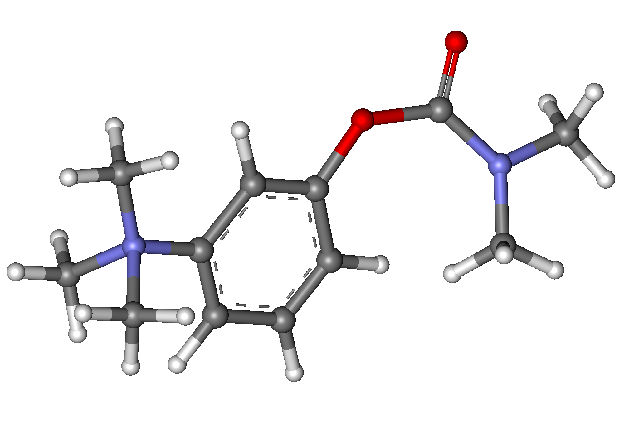 Ball-and-stick model of neostigmine molecule. The structure is taken from ChemSpider. ID 4301